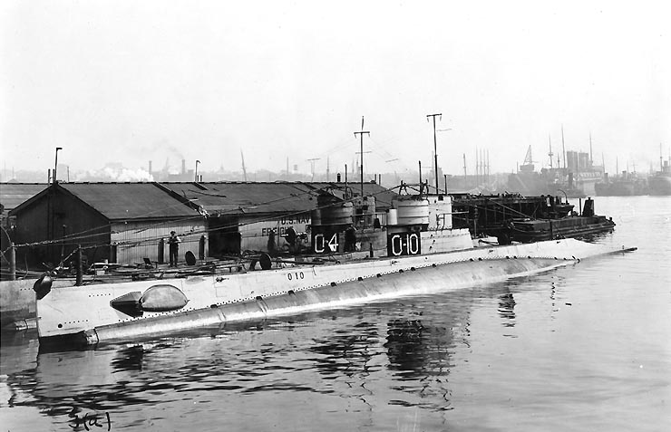 US Navy submarine USS O-10 (SS-71) at the Boston Navy Yard in Boston, Massachusetts. Submarine USS O-4 (SS-65) is moored inboard of O-10.